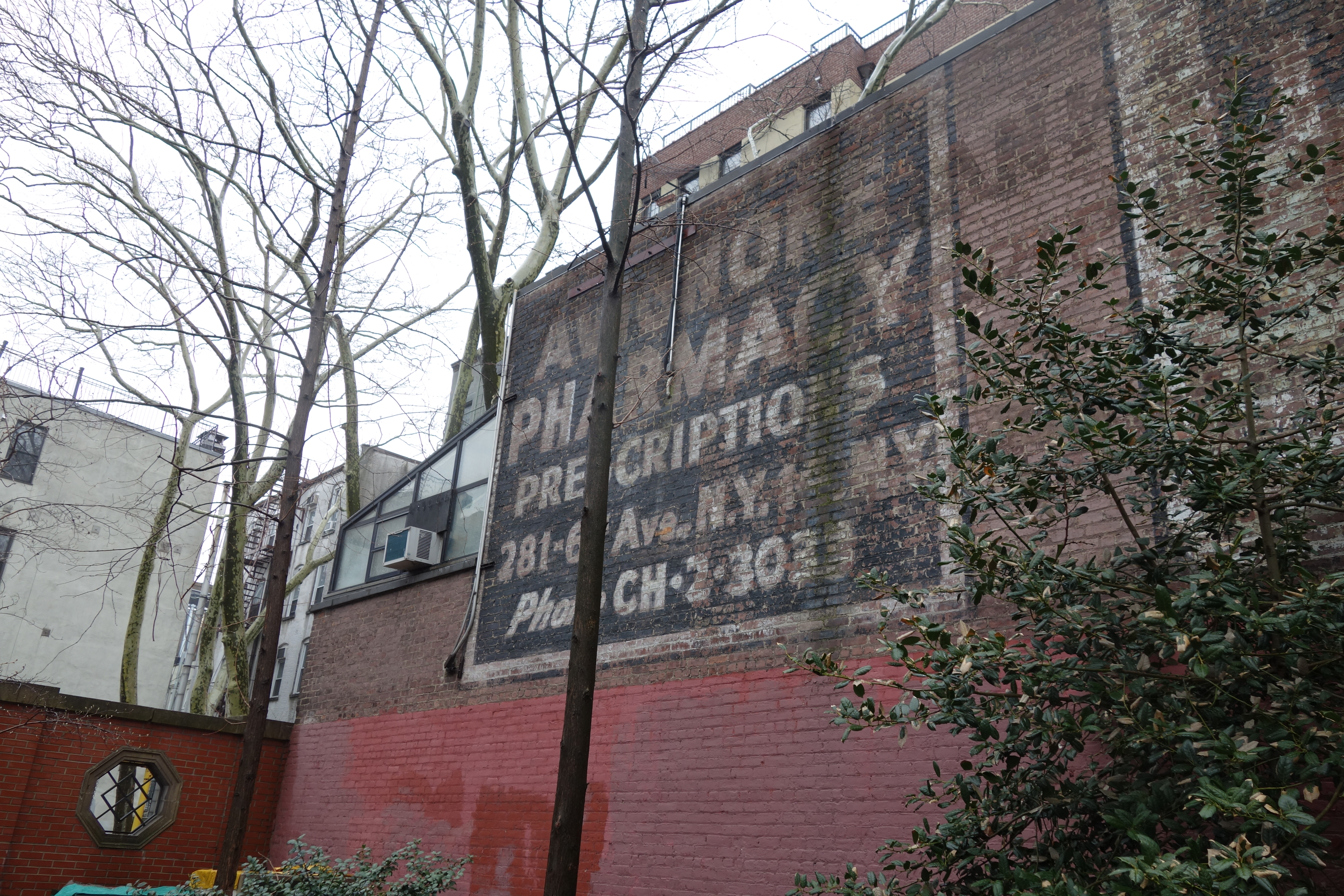 The side of the former Avignone Chemists Pharmacy (226 Bleecker Street / 281 Sixth Avenue), looking from inside Sir Winston Churchill Square on a rainy day, on the west side of the Avenue between Bleecker and Downing Streets in Greenwich Village, Manhattan. The pharmacy existed from 1929 until 2015. The building is now used for a sweetgreen restaurant.